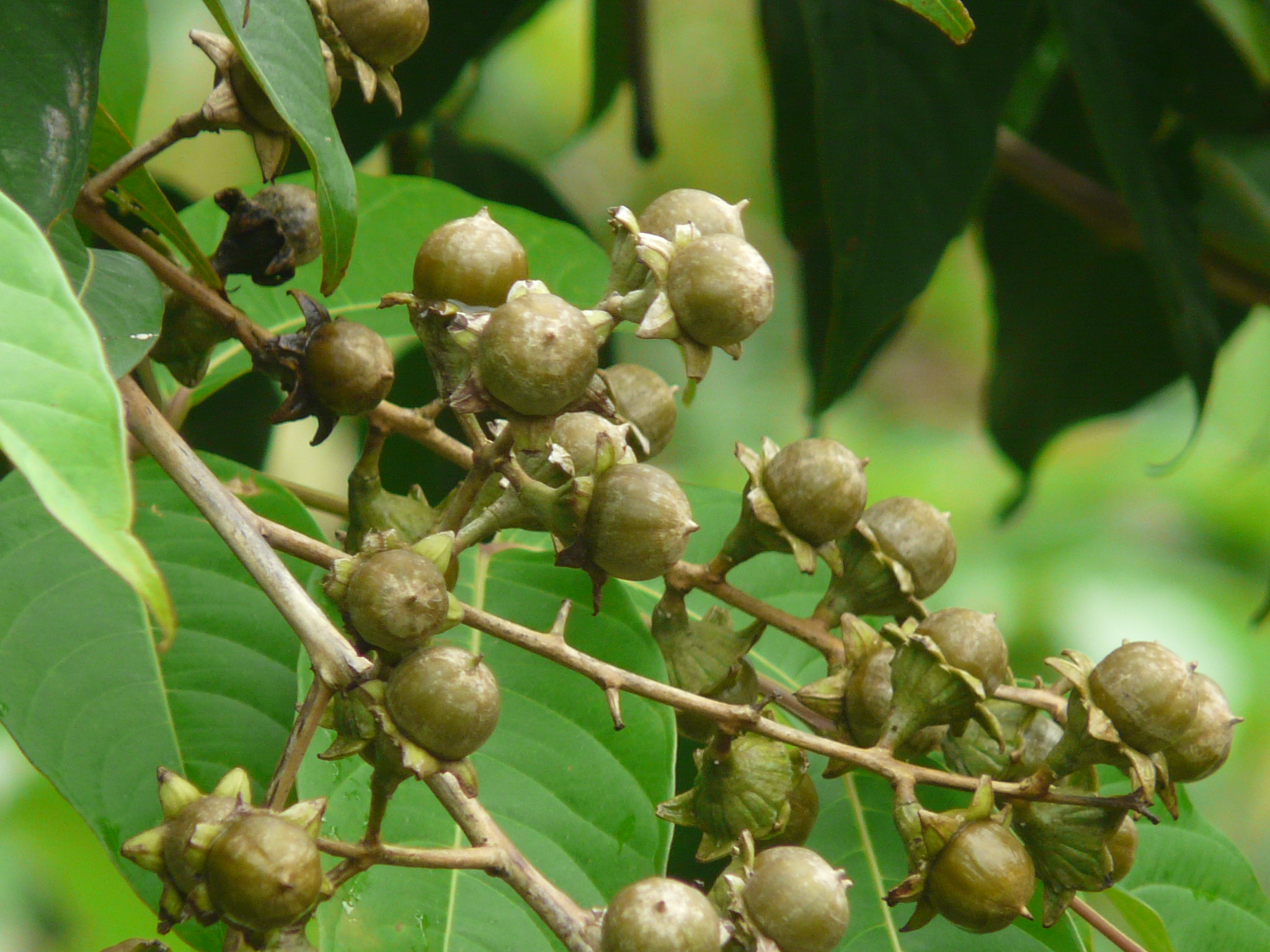 Lythraceae (Lythrum, or loosestrife family) » Lagerstroemia speciosa (L.) Pers. la-ger-STROO-mee-uh -- named for Magnus von Lagerström, Swedish naturalist... Dave's Botanary spee-see-OH-suh -- showy or spectacular ... Dave's Botanary commonly known as: giant crape-myrtle, pride of India, queen's crape-myrtle, queen's flower • Assamese: আজাৰ ajara • Bengali: জারুল jarul • Gujarati: જારૂલ jarul, મોટો ભોંડારો moto bhondaro, તામન taman • Hindi: जारल jaral, जरुल jarul • Kannada: ಹೊಳೆ ದಾಸವಾಳ hole dasavala, ಹೊಳೆದಚಲ್ಳ holedachalla, ಮರುವ maruva, ನಂದಿ nandi • Konkani: सोटुलारी sotulari • Malayalam: അടന്പു adambu, മണിമരുത് manimaruth, പൂമരുത് puumaruth • Manipuri: jarol • Marathi: जारूळ jarul, मोठा बोंडारा motha bondara, ताम्हण tamhan • Mizo: chawn-pui, thla-do • Tamil: கதலி kadali, பூமருது pu-marutu • Telugu: సొగసులచెట్టు sogasulachettu • Urdu: جرول jarul Native to: tropical southern Asia; widely cultivated References: Flowers of India • NPGS / GRIN • Top Tropicals • Dave's Garden • Wikipedia